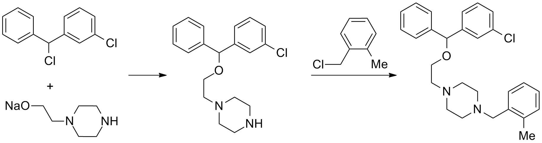 H. G. Morren, R. Denayer, R. Linz, H. Strubbe, and S. Trolin, Ind. Chim. Belg., 22, 429 (1957).